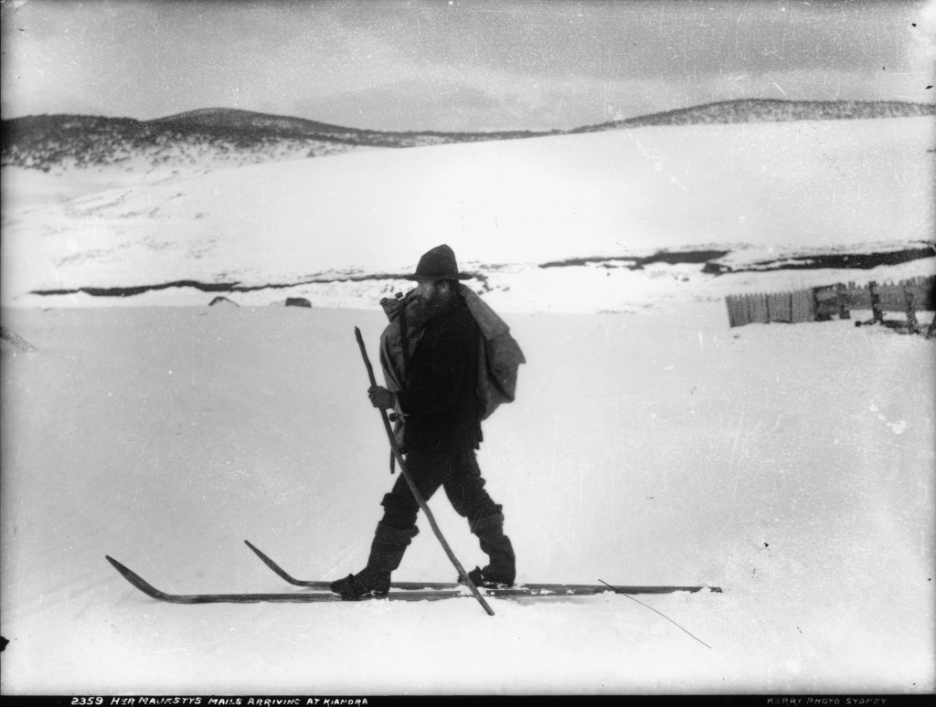 The mail arrives in snowbound Kiandra, Australia.